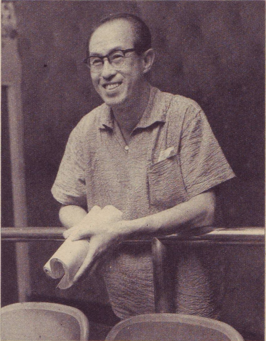 Yoshio Aoyama (Theatre director from Japan). taken in 1955.